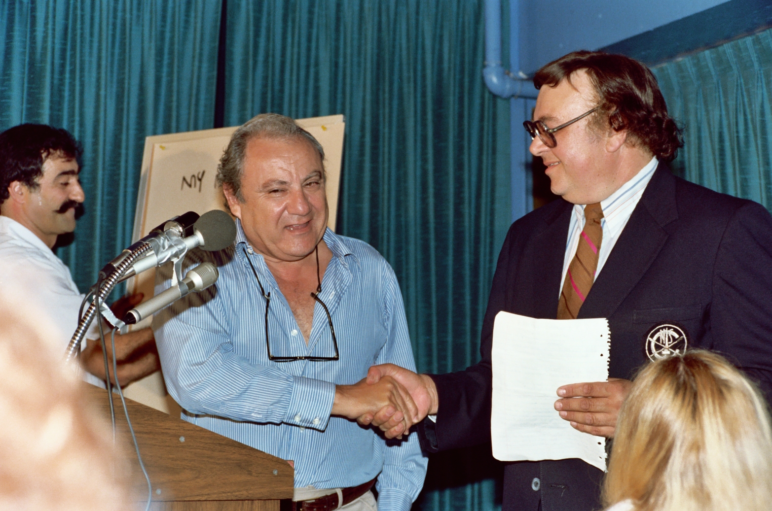 Comedian Bill Dana, in blue, shakes Shel Dorf's hand as Sergio Aragones draws in the background at the 1982 San Diego Comic Con (today called Comic-Con International).